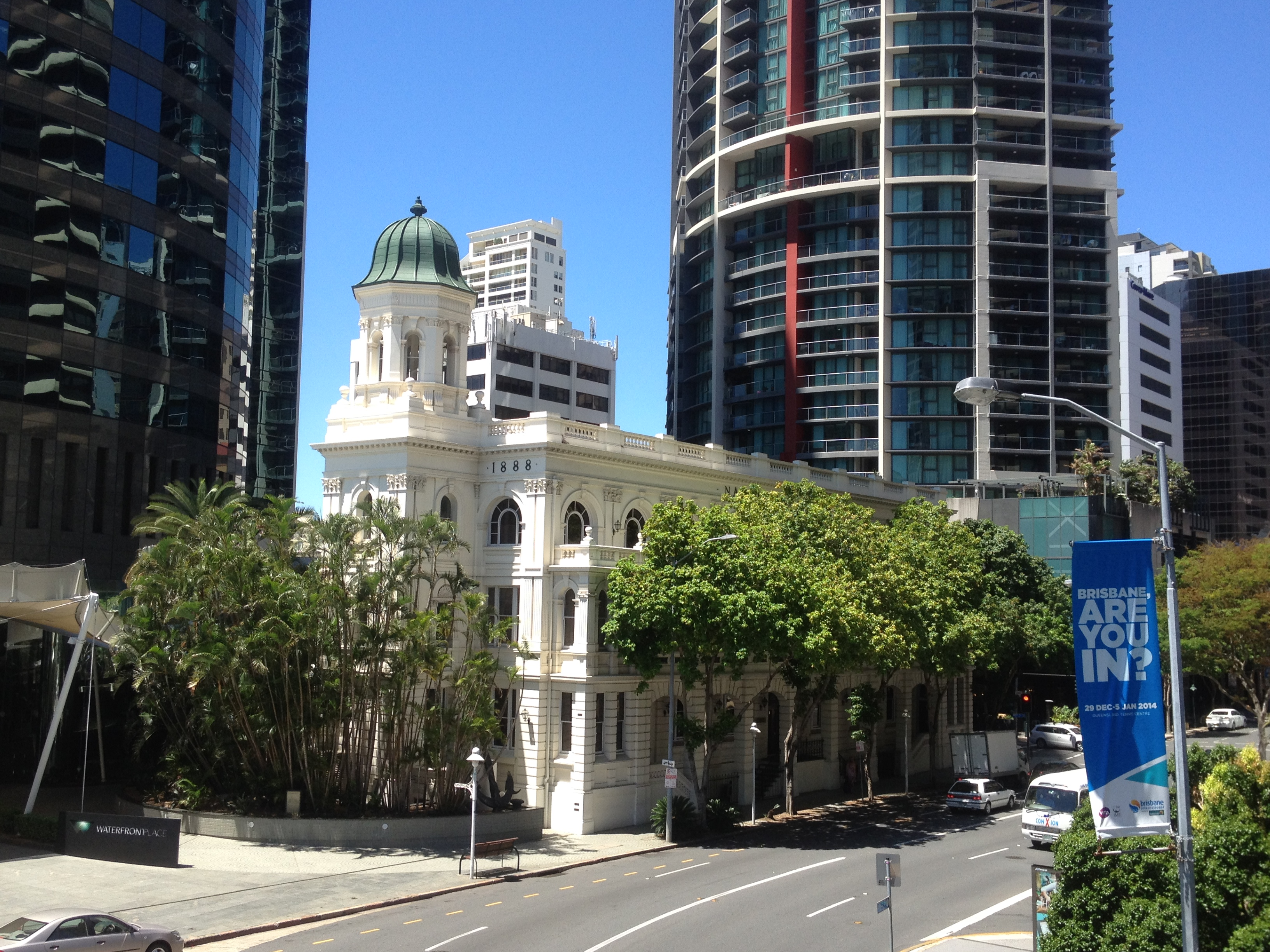 Brisbane Polo Club - Naldham House